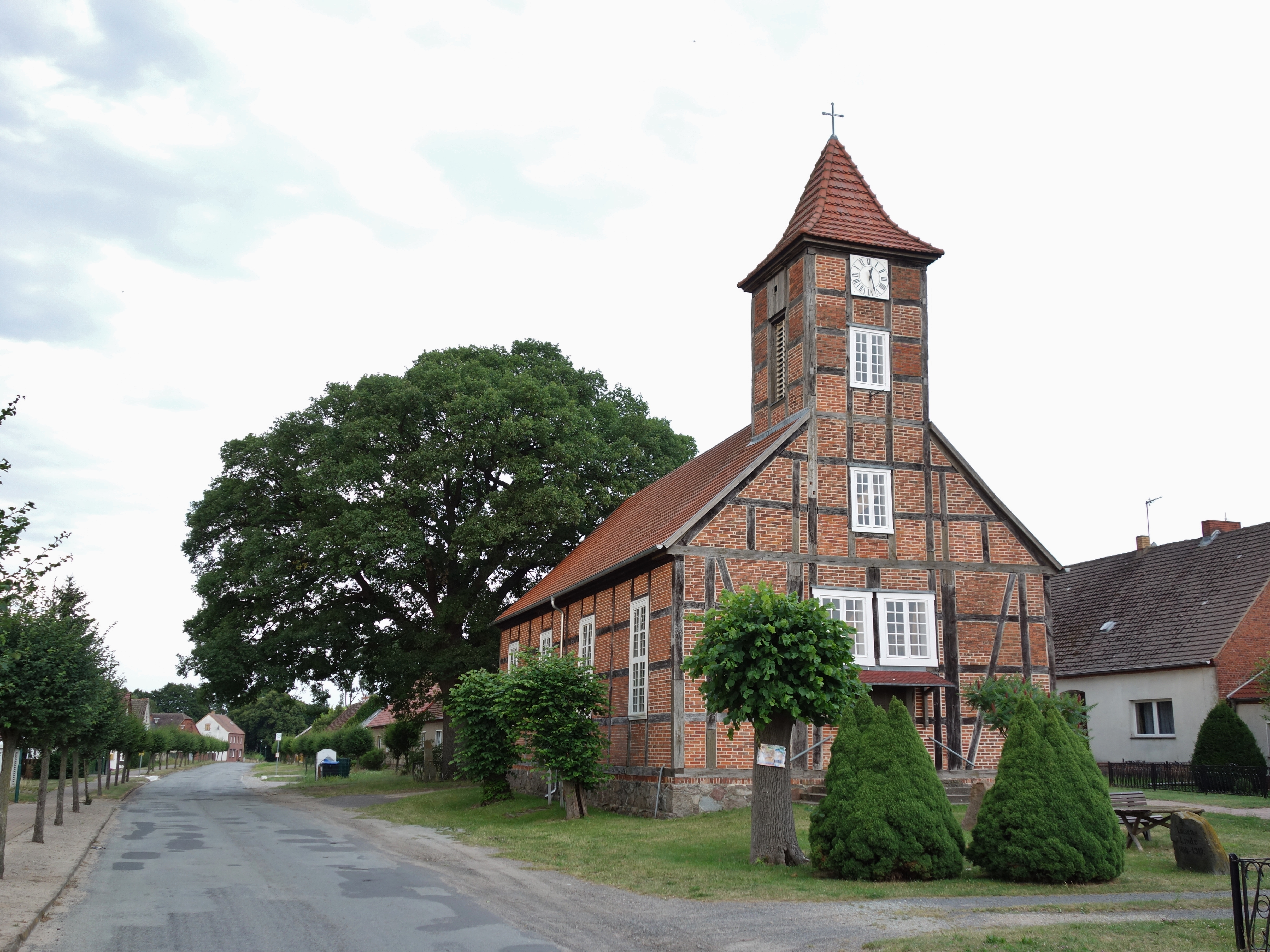 North-western view of church in Vettin, Groß Pankow municipality, Prignitz district, Brandenburg state, Germany. Behind the church the oak-tree commemorating the 1870 Prussian victory against France is seen.